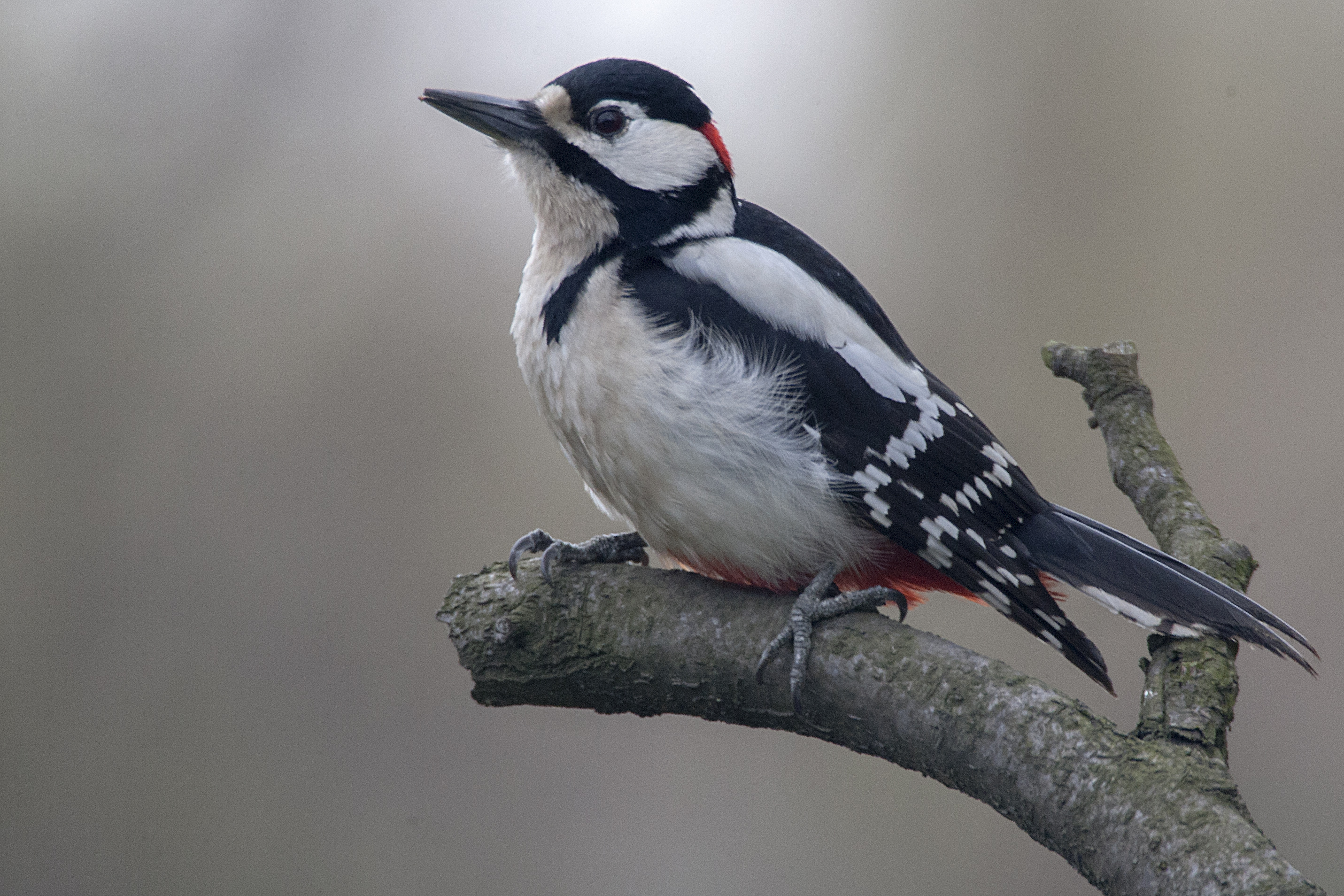 The Great Spotted Woodpecker, Lodz(Poland)